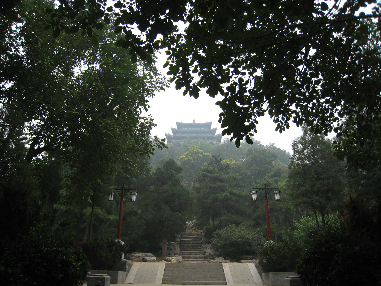 The north side of the park looking up towards the top of the mountain.